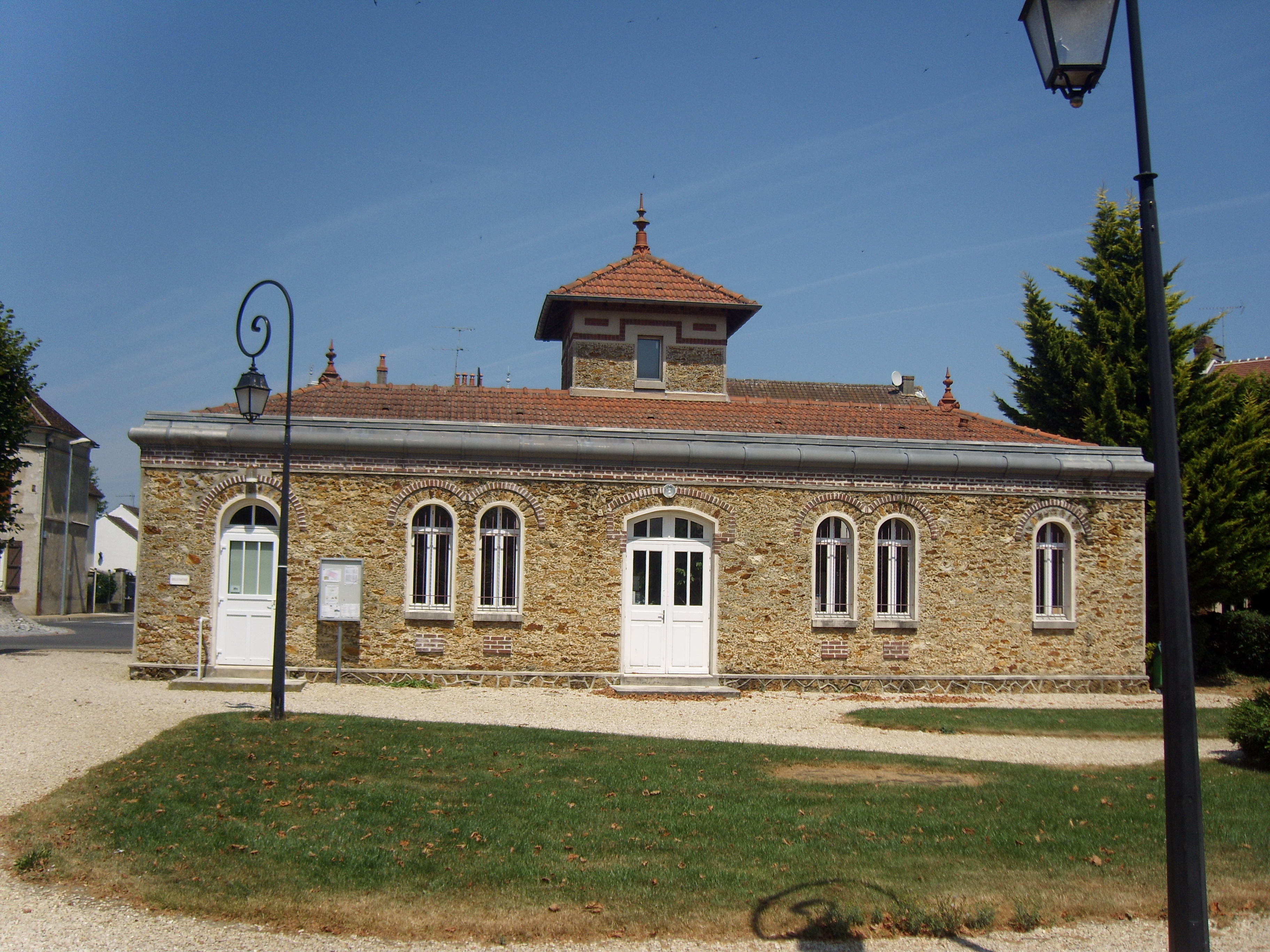 Public Library of Fontenay-Trésigny